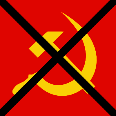 Anti-communism symbol.